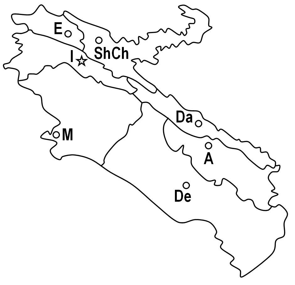 Map of Ilam with county abbreviations